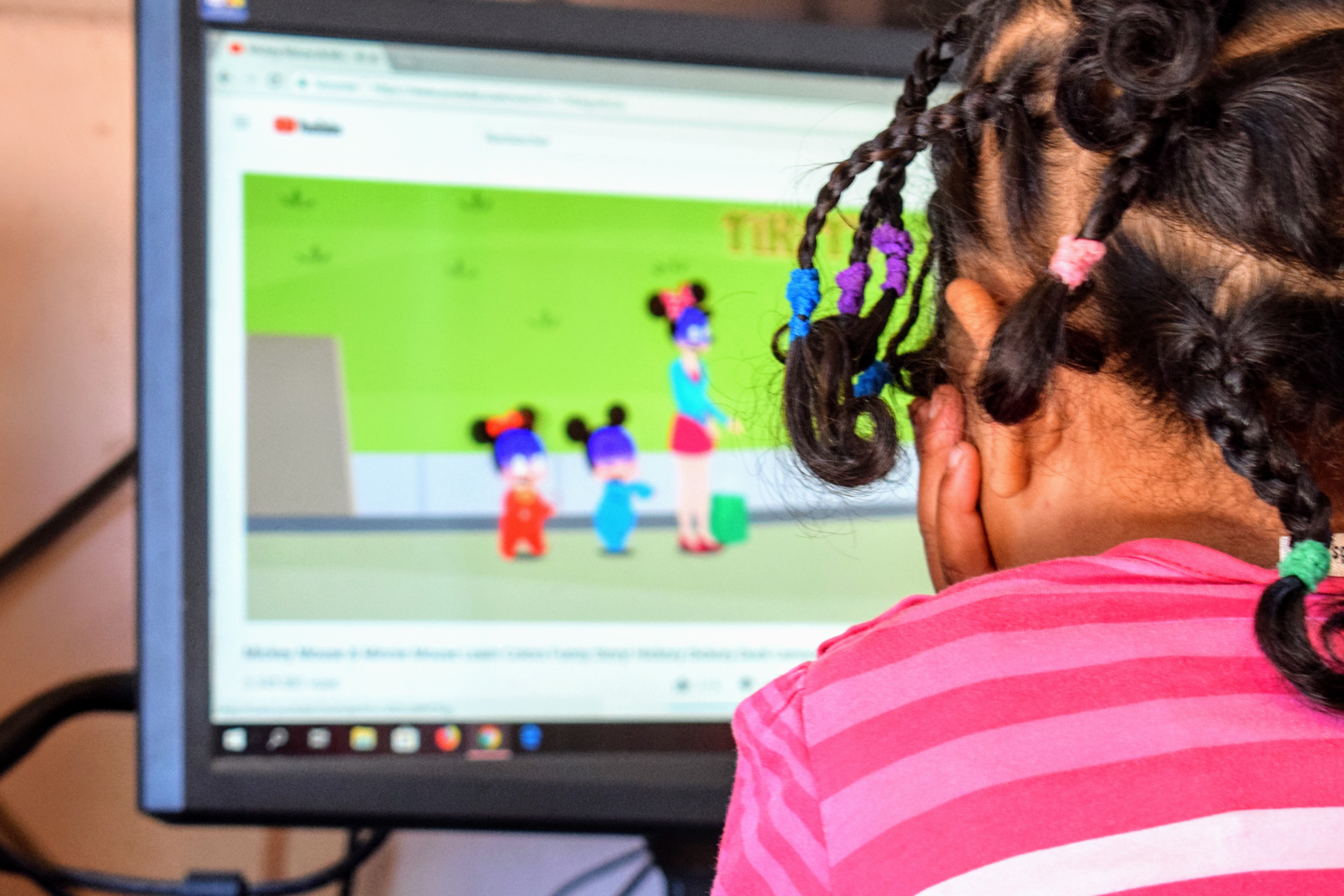 This is an image with the theme "Play" from: Madagascar